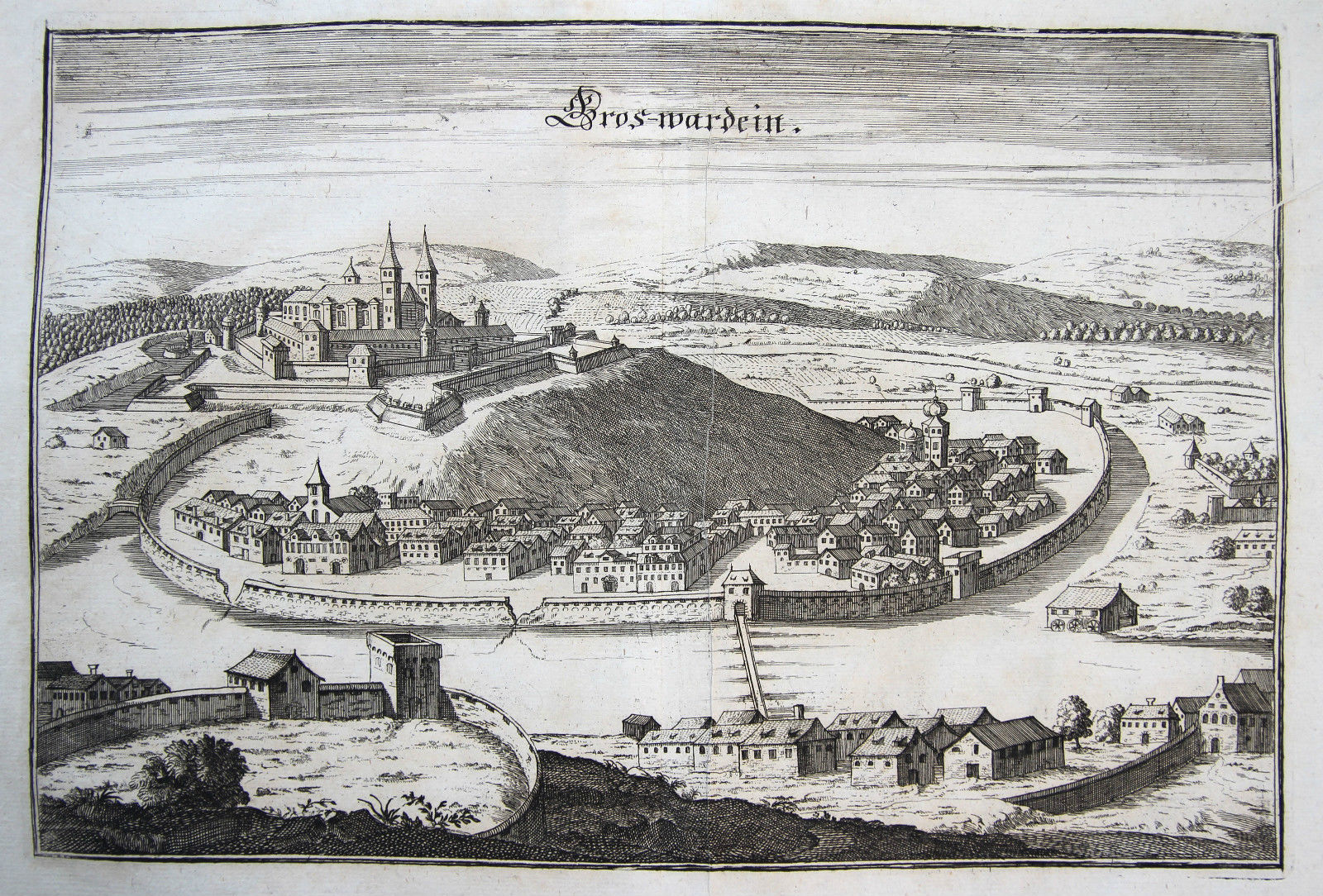 Original Copperplate View großwardein nagyvárad Oradea Romania; 1702